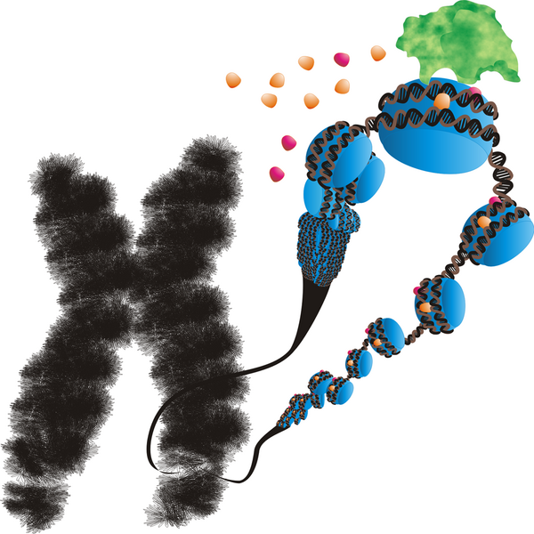 Silencing of the FMR1 Gene in Fragile X Mental Retardation Syndrome: Artistic representation of events occurring during gene silencing in Fragile X mental retardation syndrome (FXS). The FMR1 gene, which is on the X chromosome, colocalizes with a fragile site seen in FXS cells that gives this disorder its name. FXS alleles become associated with SIRT1. SIRT1, a class III histone deacetylase, deacetylates lysine 9 of histone H3 and lysine 16 of histone H4, ultimately leading to chromatin compaction and gene silencing (see Biacsi et al., e1000017).